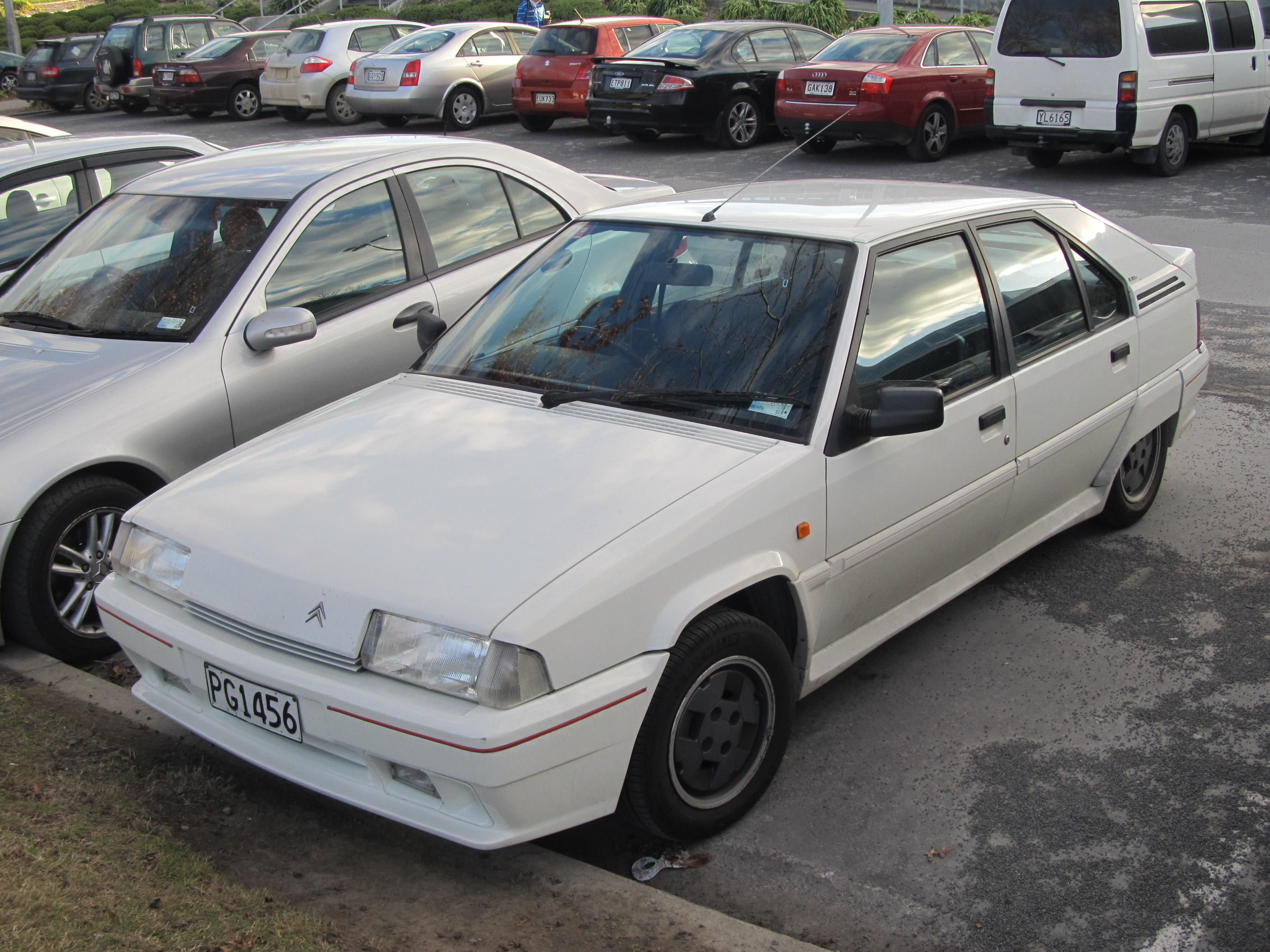 PG1456 A nice surprise in a car park a few weeks back! This was in fantastic condition.